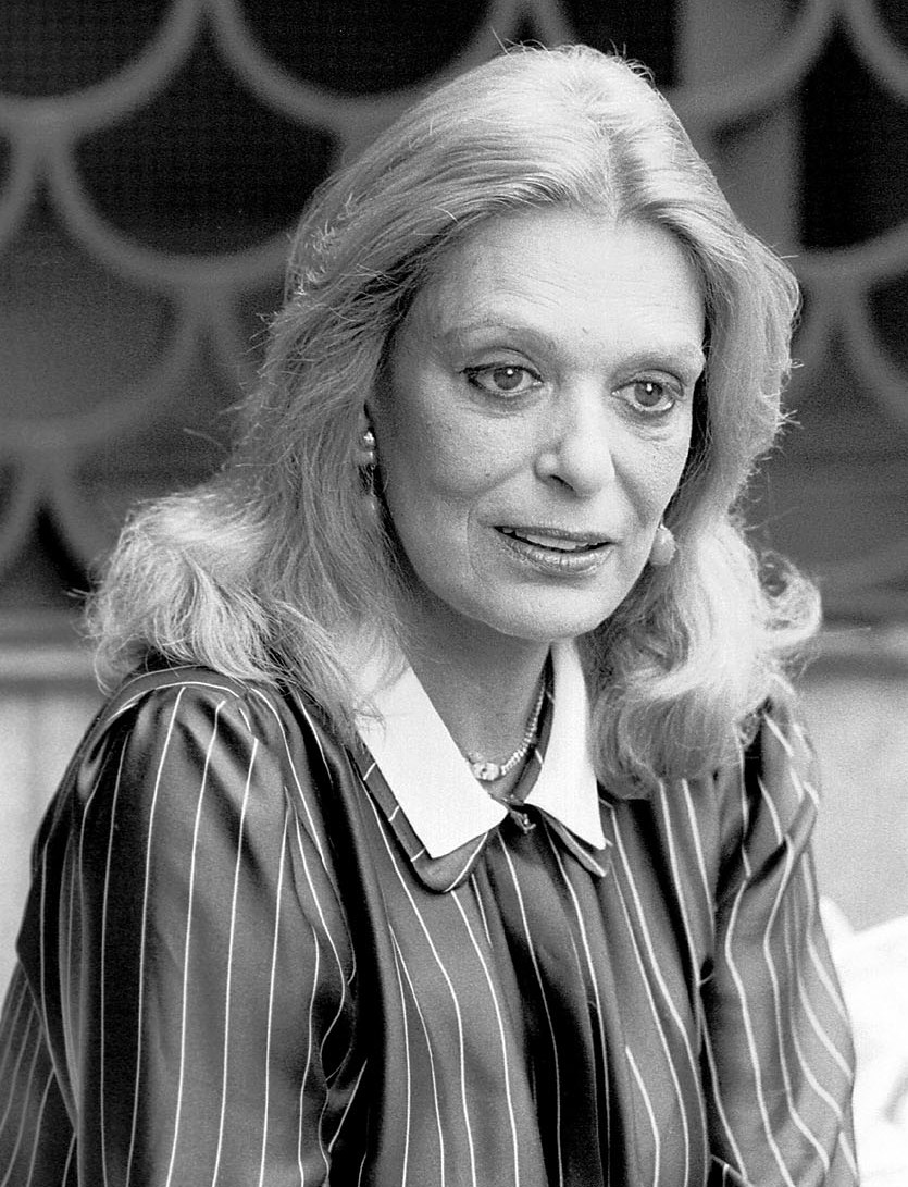 Portrait photograph of Melina Mercouri. Stockholm 1982.